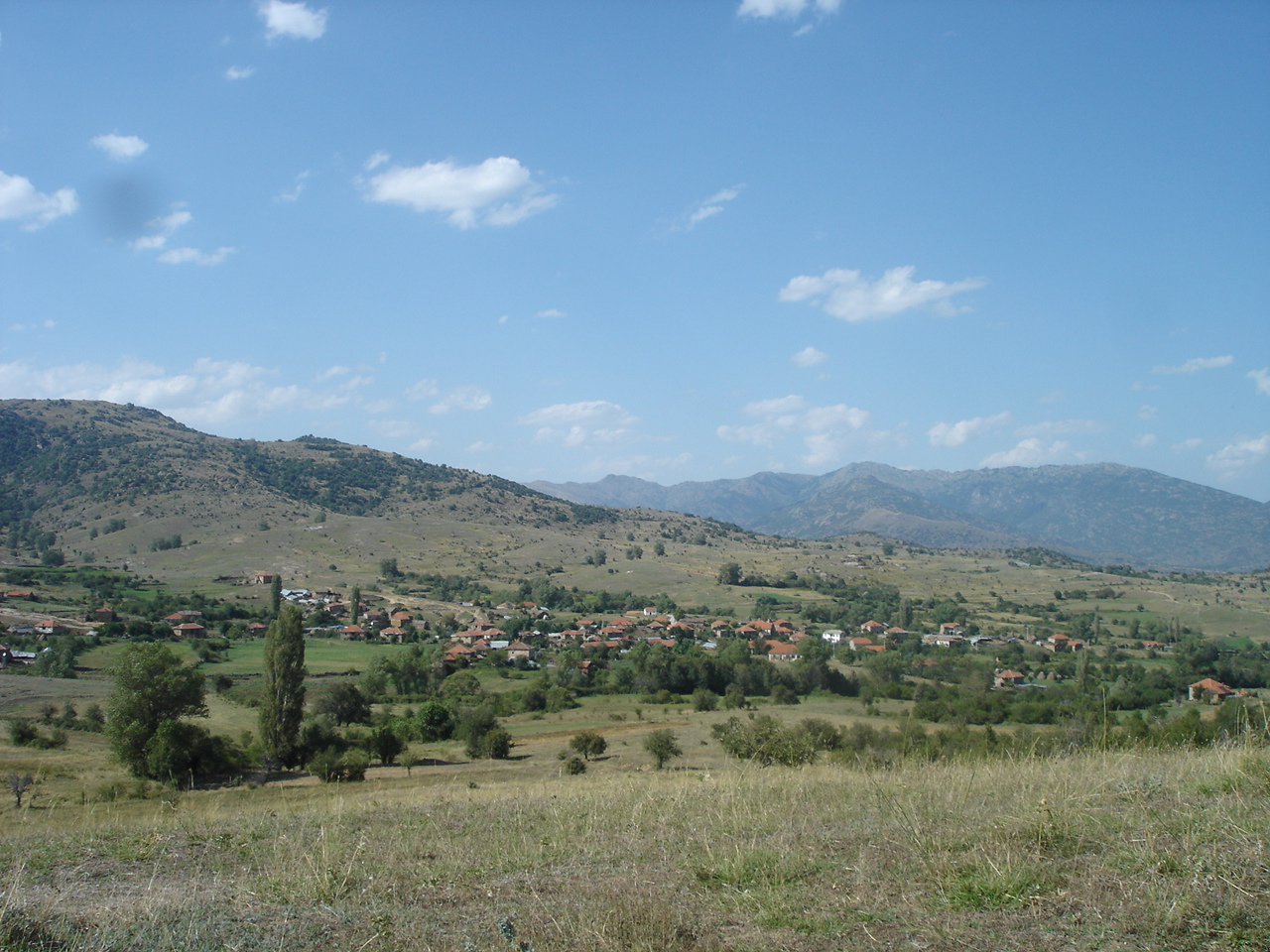 village Krushevica in Mariovo region near Prilep, Macedonia